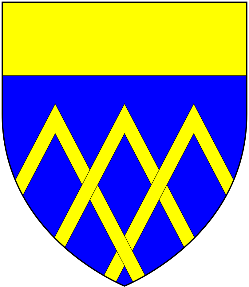 Arms of FitzHugh of Ravensworth Castle, North Yorkshire: Azure, three chevrons interlaced in base or a chief of the last. Baron FitzHugh, whose heiress married Parr. These arems were quartered by Queen Catherine Parr, and later by the Herbert family, Earls of Pembroke, who married the Parr heiress. They are visible in the Double Cube Room of Wilton Place, seat of the Herbert family, Earls of Pembroke. Also visible quartering Marmion (Vair, a fesse gules) and impaling Neville, in a stained glass window in Wath Church. This relates to the marriage of Henry FitzHugh, 5th Baron FitzHugh to Alice Neville, sister of Richard Neville, Earl of Warwick.